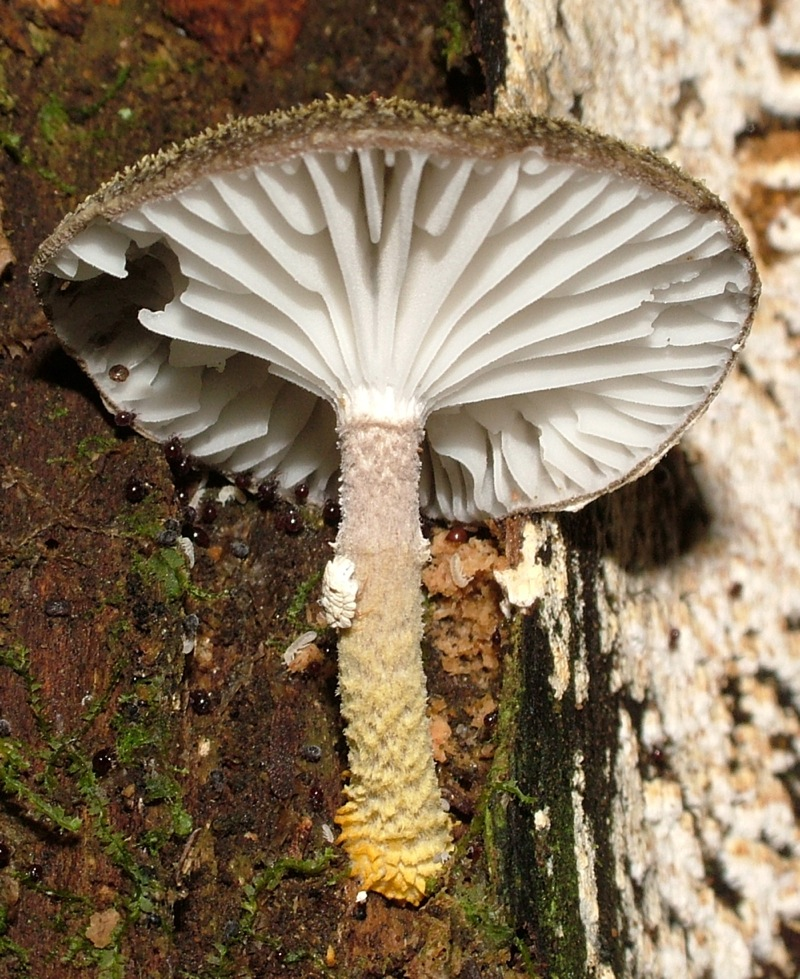 The gills of the mushroom Cyptotrama asprata (Berk.) Redhead & Ginns. Photographed in Auckland, New Zealand.